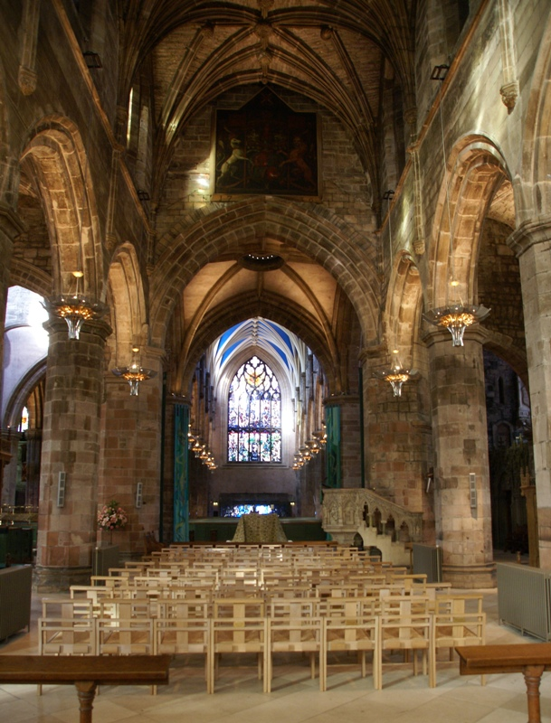 St Giles' Cathedral, Edinburgh, Scotland. Interior.